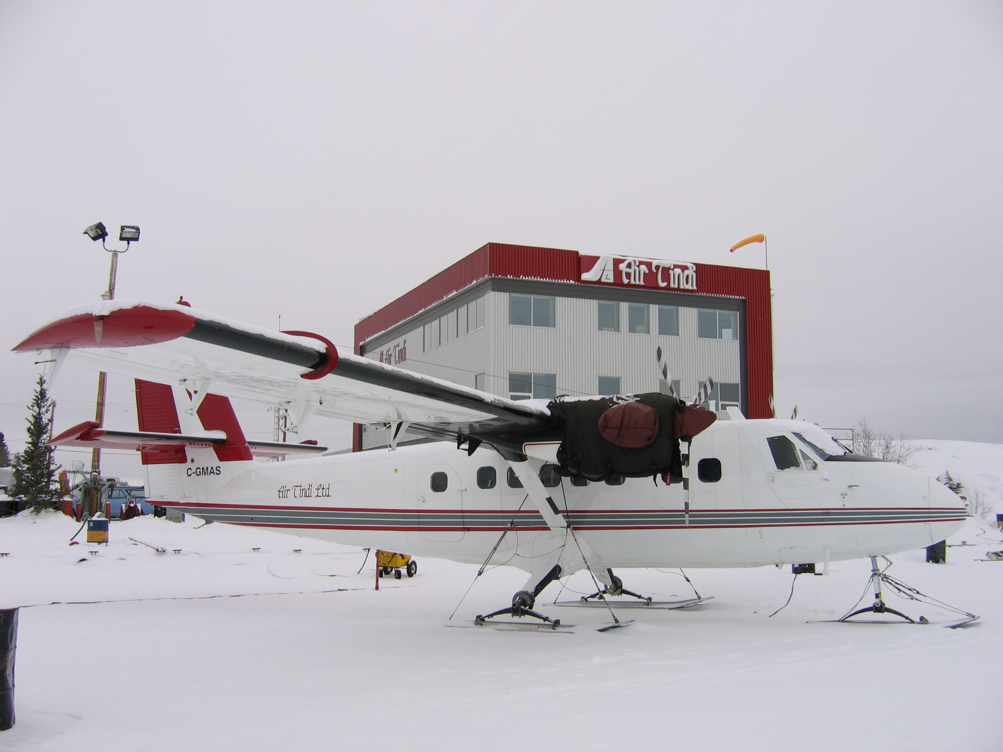 De Havilland Canada DHC-6 Twin Otter on skis. I took this photo and allow all to use. Trevor MacInnis 18:50, 27 Jan 2005 (UTC).